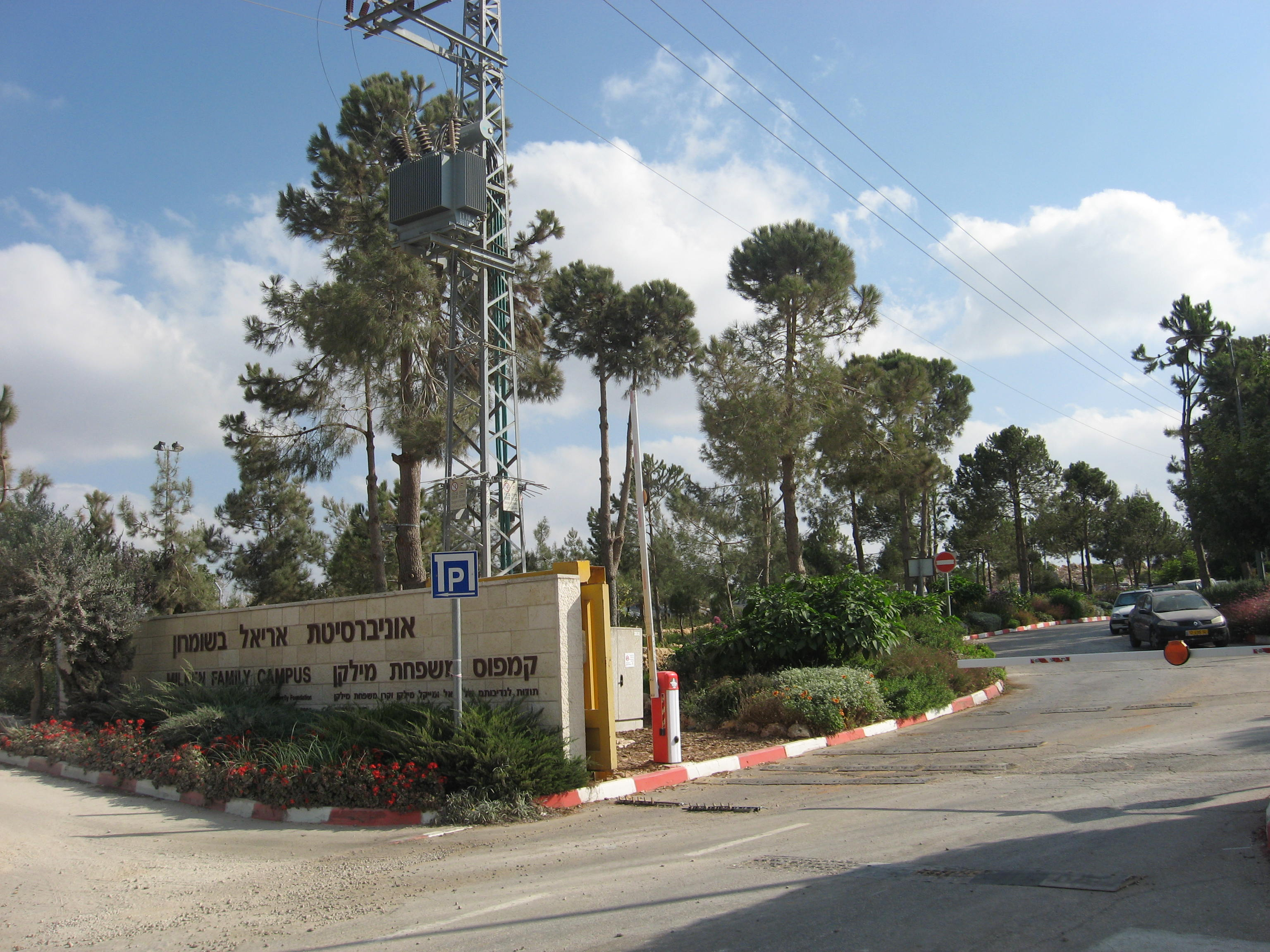 Entrance to the Milken (upper) campus of the Ariel University